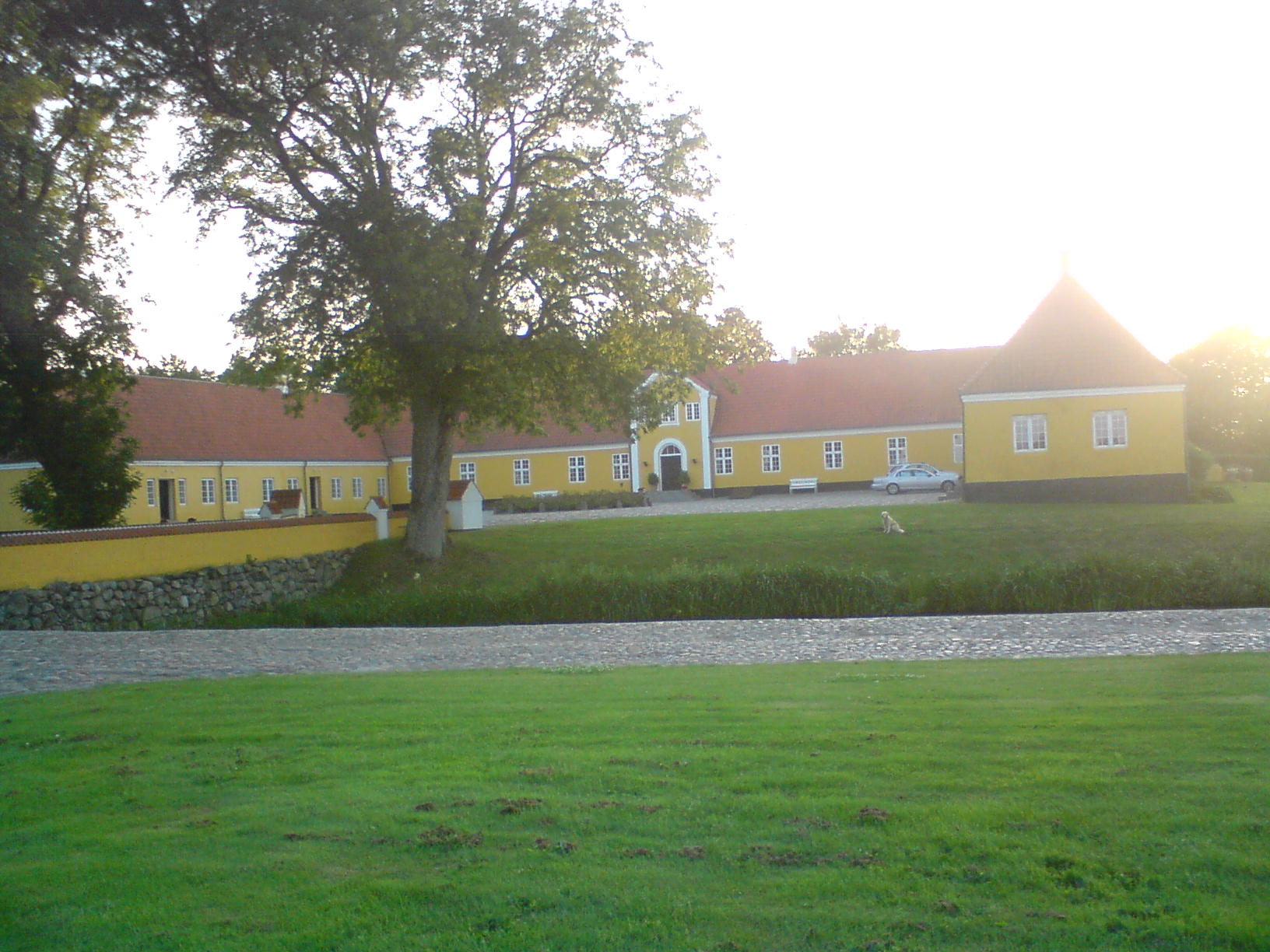 Baggesvogn Mansion